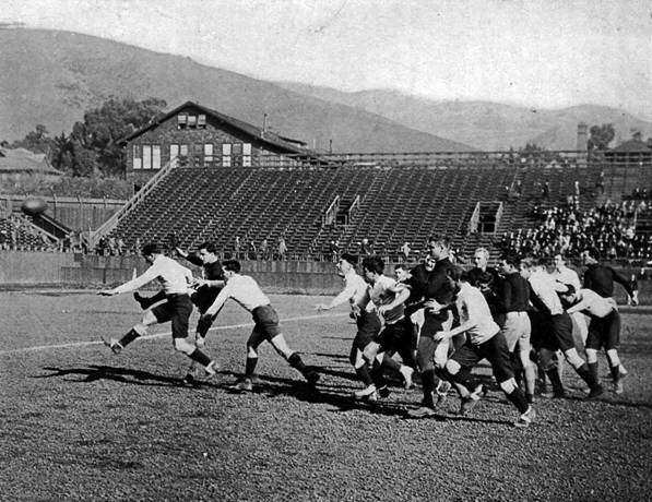 United States v. Australia national rugby teams, during the Wallabies tour on North America.